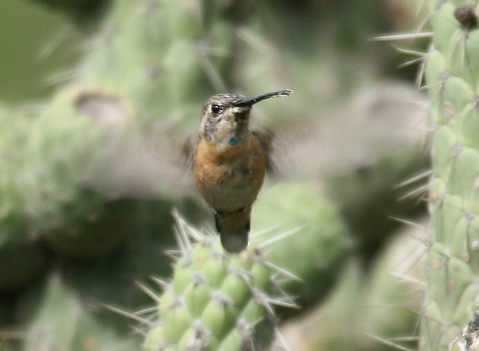 Purple-collared Woodstar (Myrtis fanny). This must be a subadult male due to the one little blue gorget feather, clinching the ID. From Mitad del Mundo, North of Quito, Ecuador, March 20, 2007